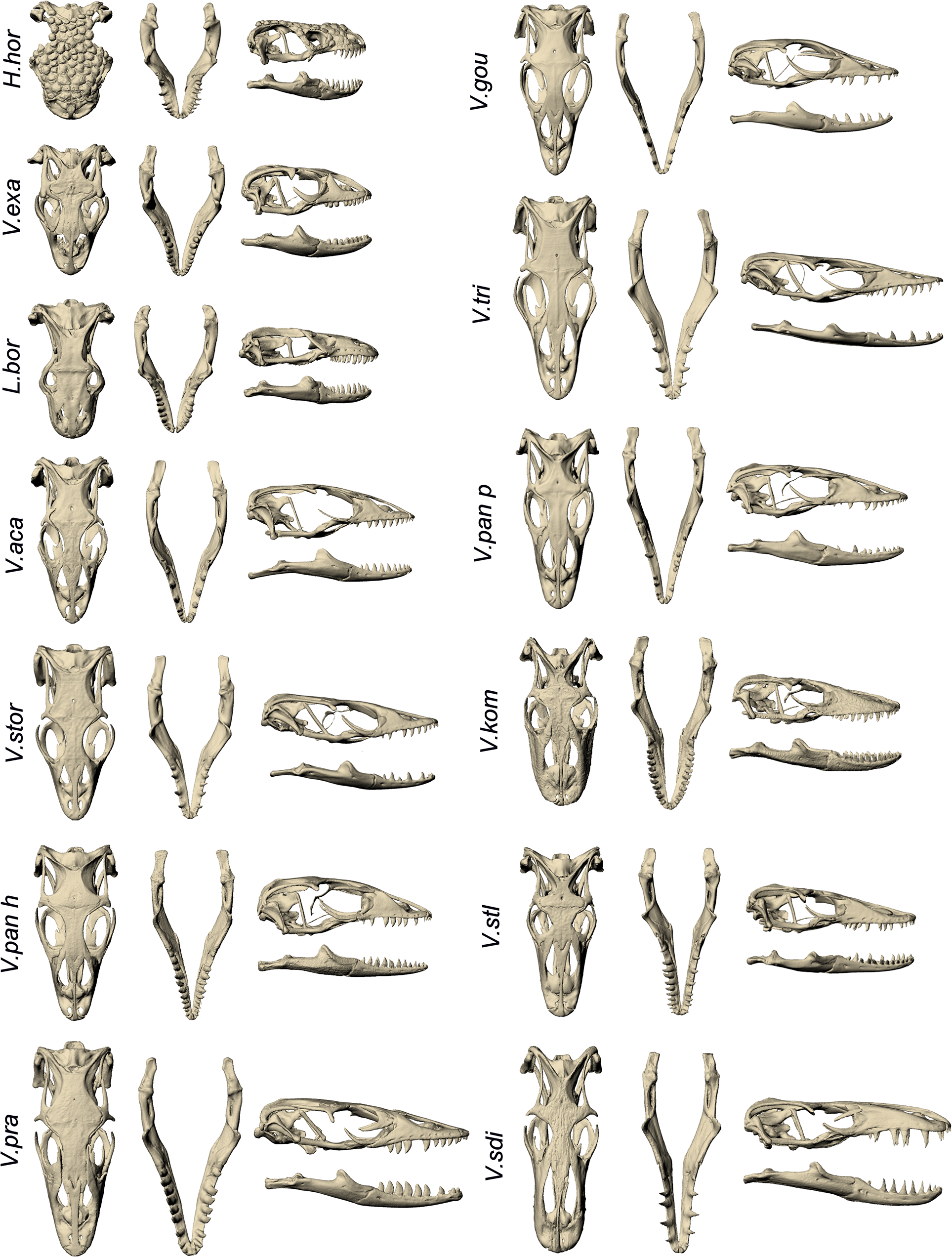 Visual comparison of cranial and mandibular morphology between specimens. The morphology of each specimen is shown in dorsal and lateral view for both the cranium and mandible. Species are ordered by cranial PC1 values. Abbreviations: H.hor, Heloderma horridum; L.bor, Lanthanotus borneensis; V.aca, Varanus acanthurus; V.exa, Varanus exanthematicus; V.gou, Varanus gouldii; V.kom, Varanus komodoensis; V.pan h, Varanus panoptes horni; V.pan p, Varanus panoptes panoptes; V.pra, Varanus prasinus; V.sdi, Varanus salvadorii; V.slt, Varanus salvator; V.stor, Varanus storri; V.tri, Varanus tristis.